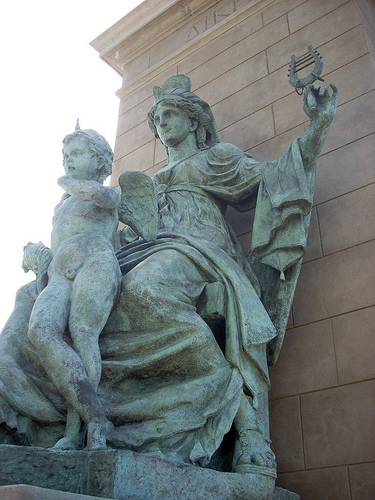 Alexandar Stoddart's "Justice"